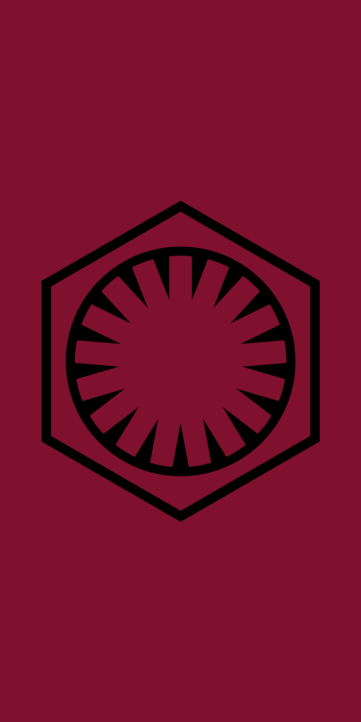 (Fictional) Banner (Vertical Flag) of the First Order